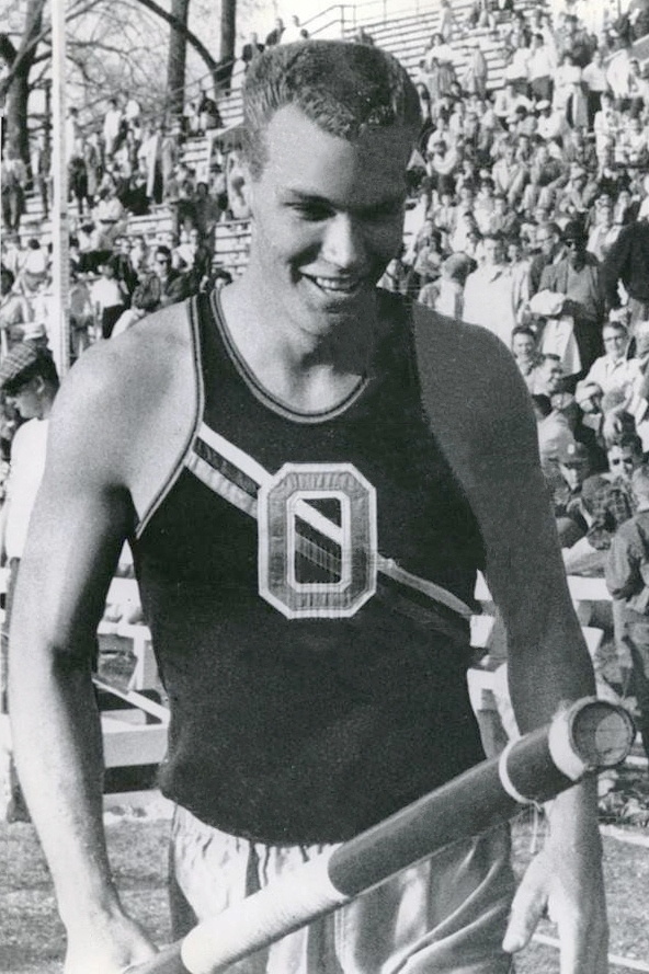 1961 Press Photo OSU's George Davies breaks pole vault record at Penn Relays